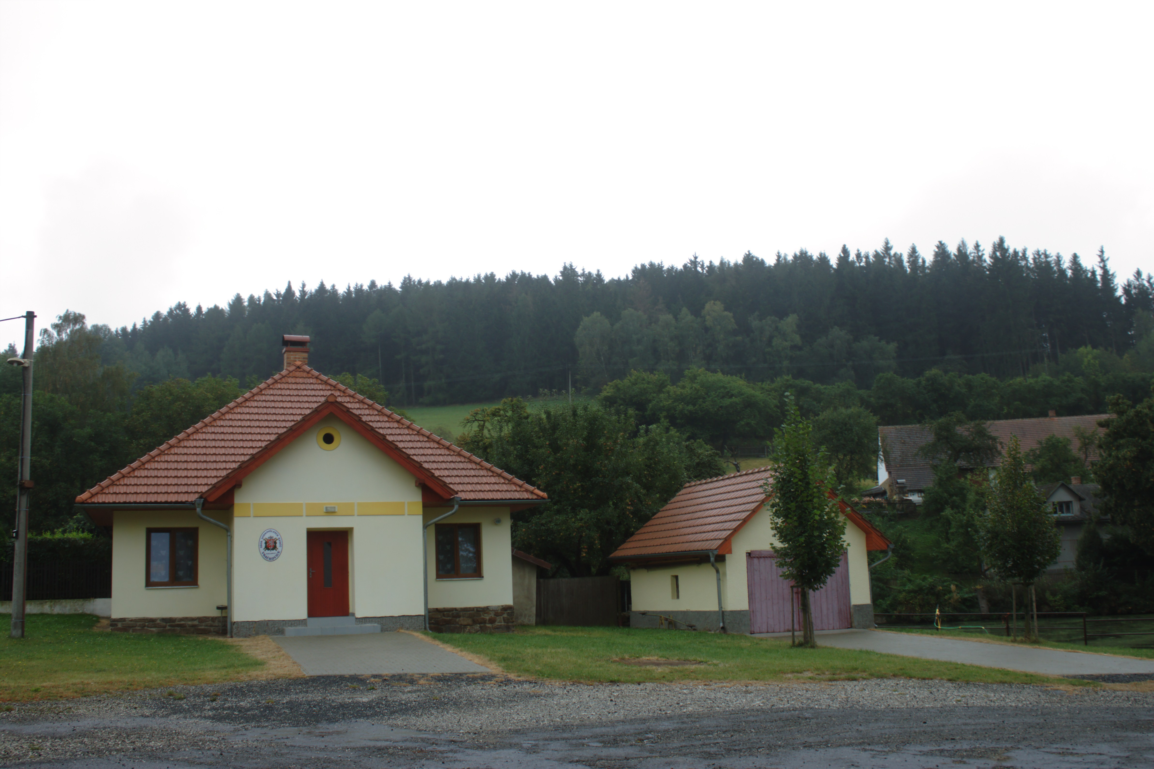 Buildings in the village of Vračkovice, Central Bohemia, CZ